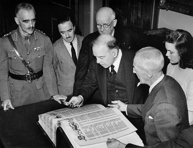 Rt. Hon. W.L. Mackenzie King examining the Book of Remembrance at the Public Archives of Canada. [L-R]: Colonel A.F. Duguid, Dr. Gustave Lanctot, Colonel J.W. Flanagan, Rt. Hon. W.L. Mackenzie King, Colonel Osborne, Miss Sylvia Bury